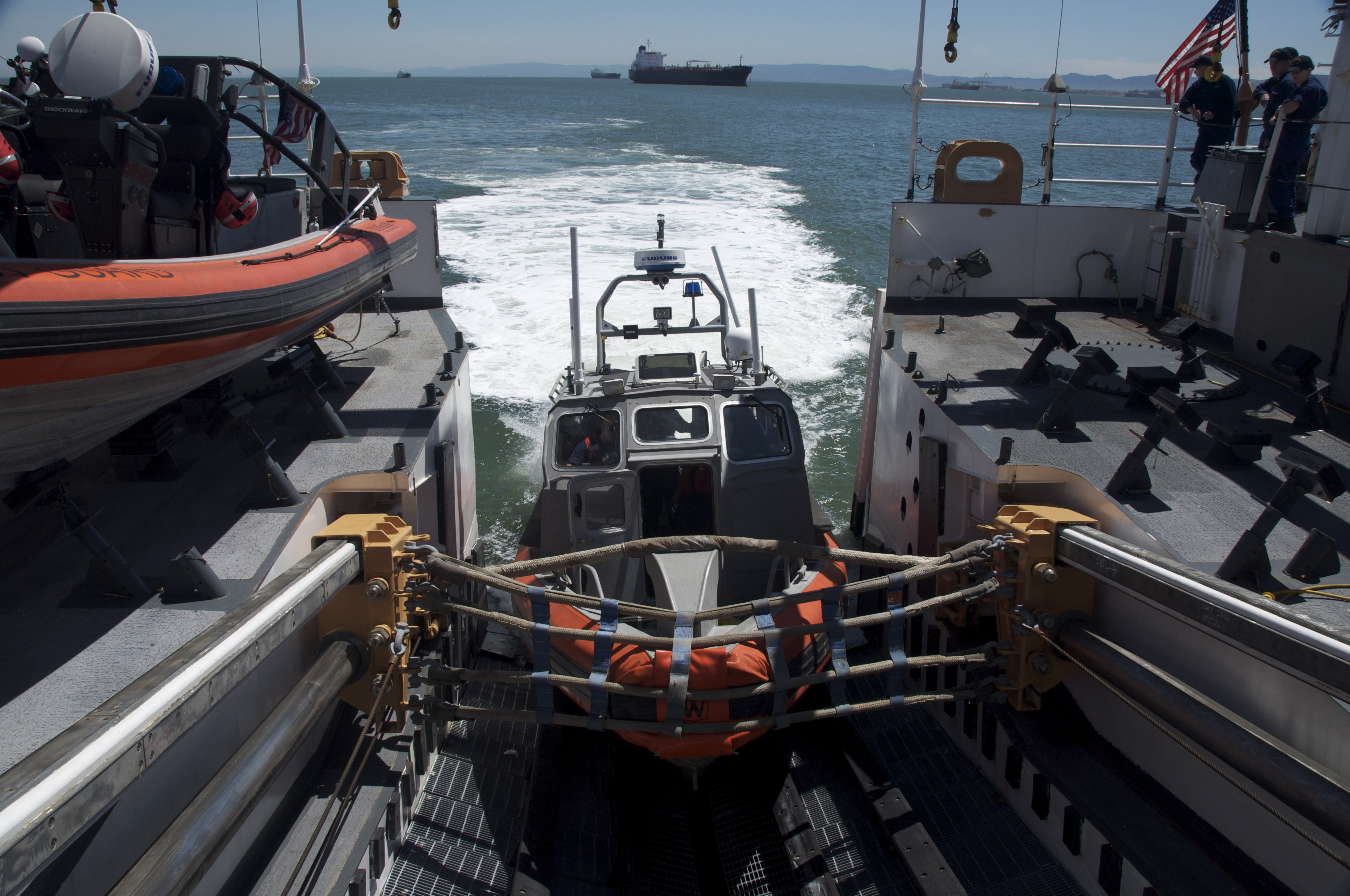 A U.S. Coast Guard long range interceptor (LRI) coming aboard into the notch at the stern of U.S. Coast Guard Cutter USCGC Bertholf (WMSL-750).